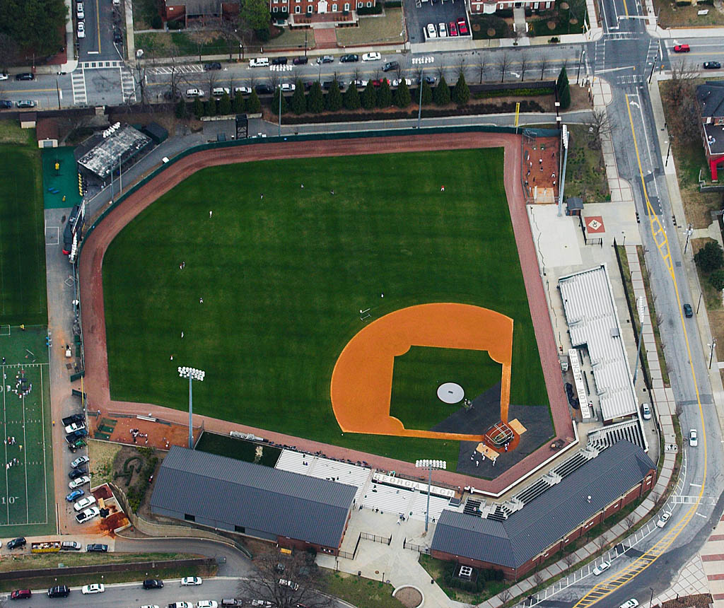 Photo of Russ Chandler Stadium by Jon Drews, released by him under cc-by-2.5 attribution license. Category:Georgia Tech Yellow Jackets baseball